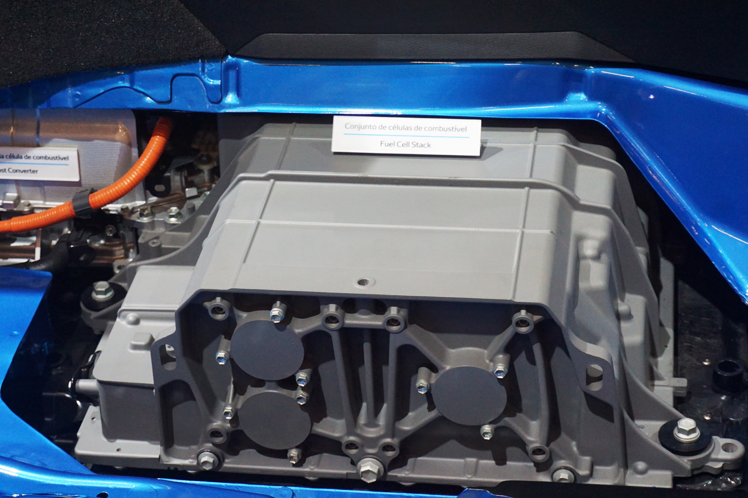 Toyota Mirai Fuel Cell cutaway exhibited at the Salão Internacional do Automóvel 2016 São Paulo, Brazil. Shown fuel cell stack.